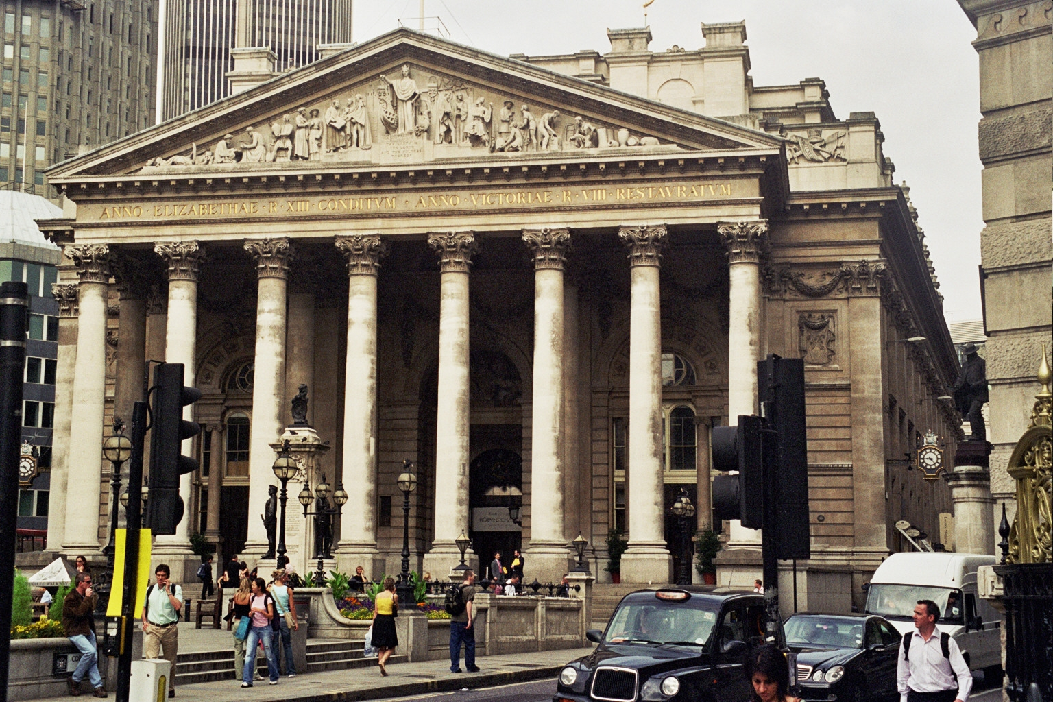 Royal Exchange, London. The Latin inscription is: ANNO ELIZABETHAE R XIII CONDITVM ANNO VICTORIAE R VIII RESTAVRATVM.